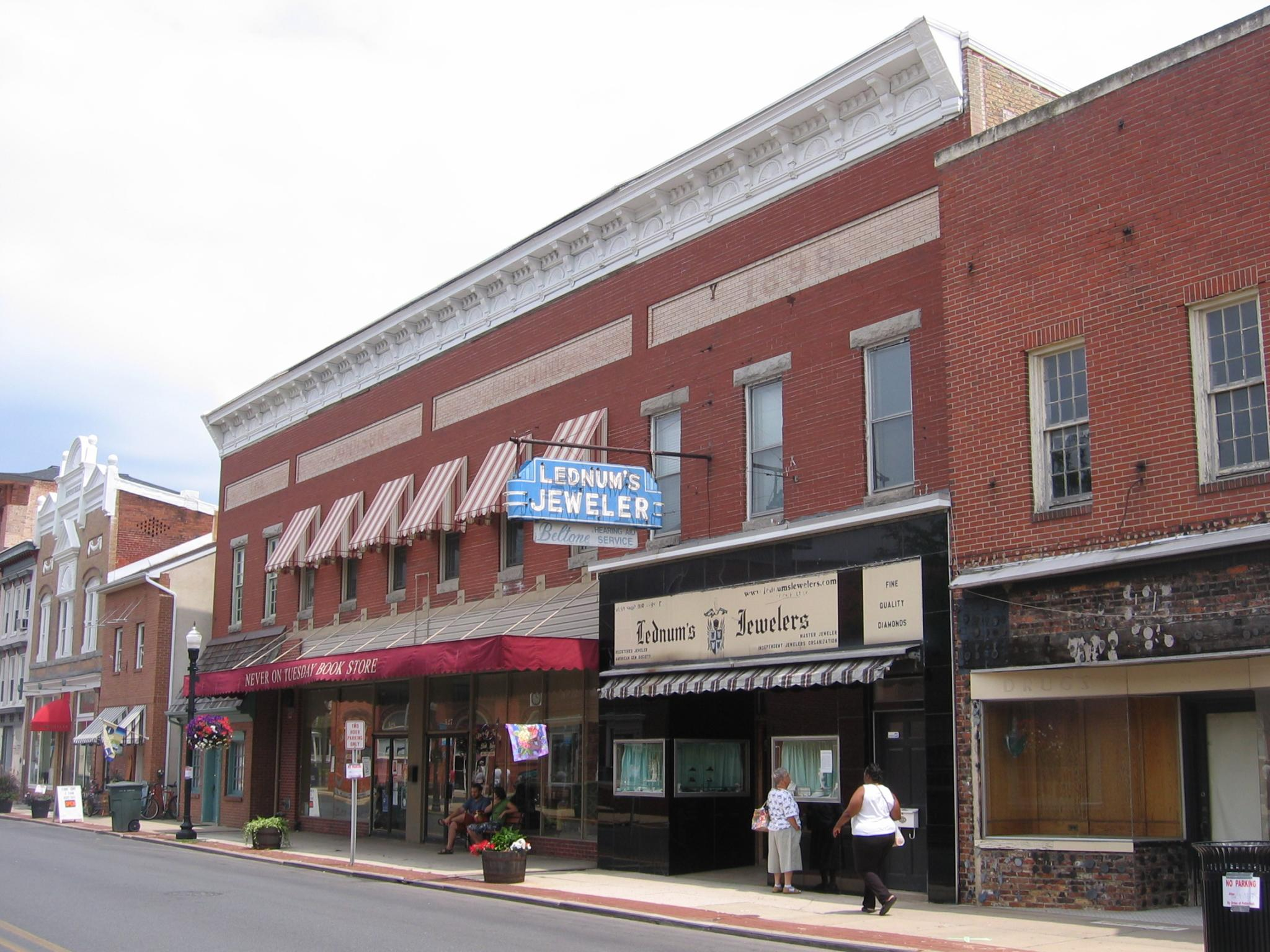 Cambridge Main Street, Location: Cambridge (Maryland).